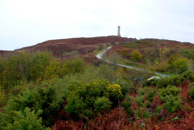 Hardy's Monument Monument to Admiral Thomas Hardy from the SW Coast path near Smitten Corner.